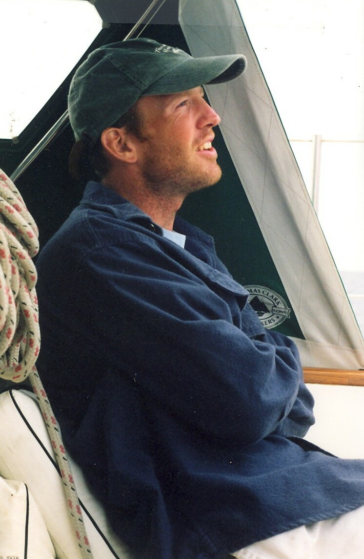 American author Lewis Robinson